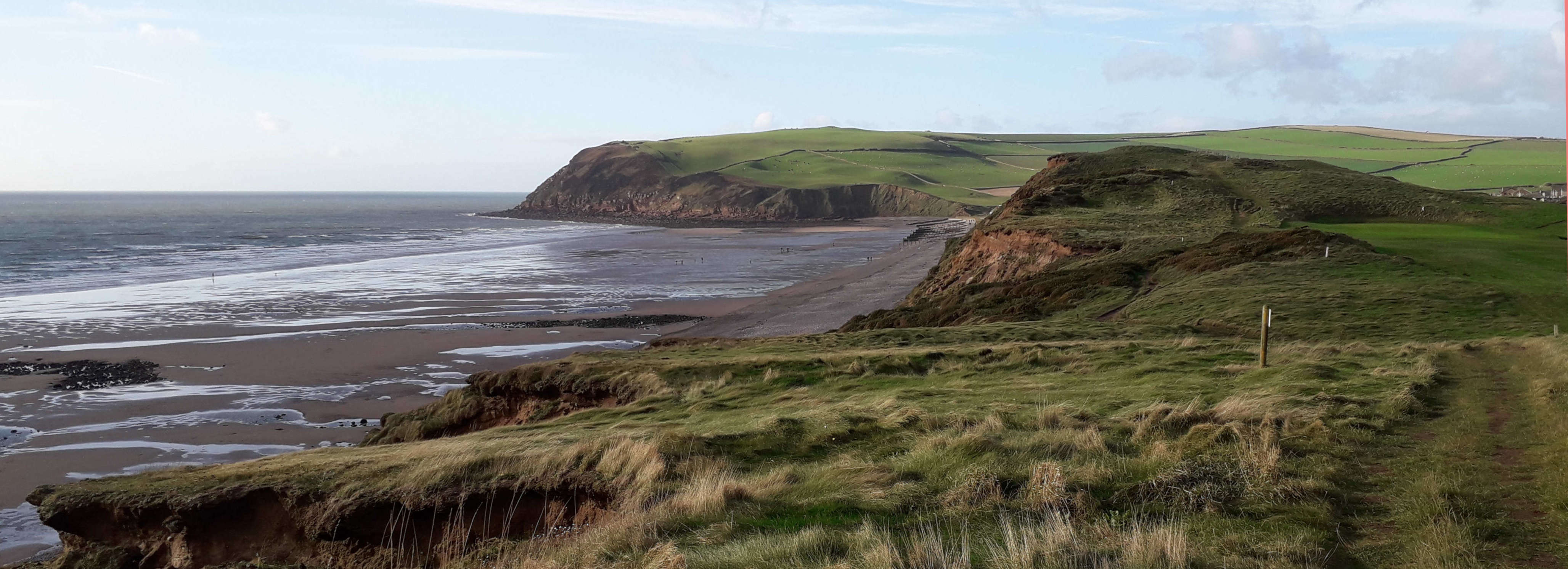 View of St Bees Head with tide out showing the extensive sands.